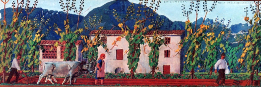 Alberto Magri - La sementa nella Valle del Serchio